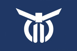 Flag of Nahari Kochi